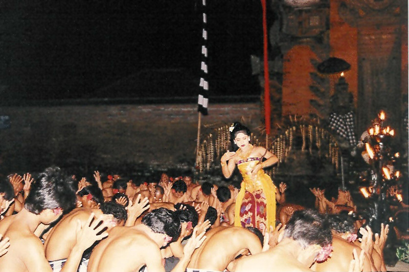 Dance of Kecak